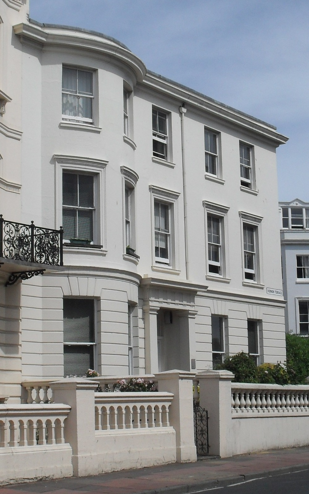 37 Vernon Terrace, Montpelier, City of Brighton and Hove, England. Listed at Grade II by English Heritage (NHLE Code 1381072)